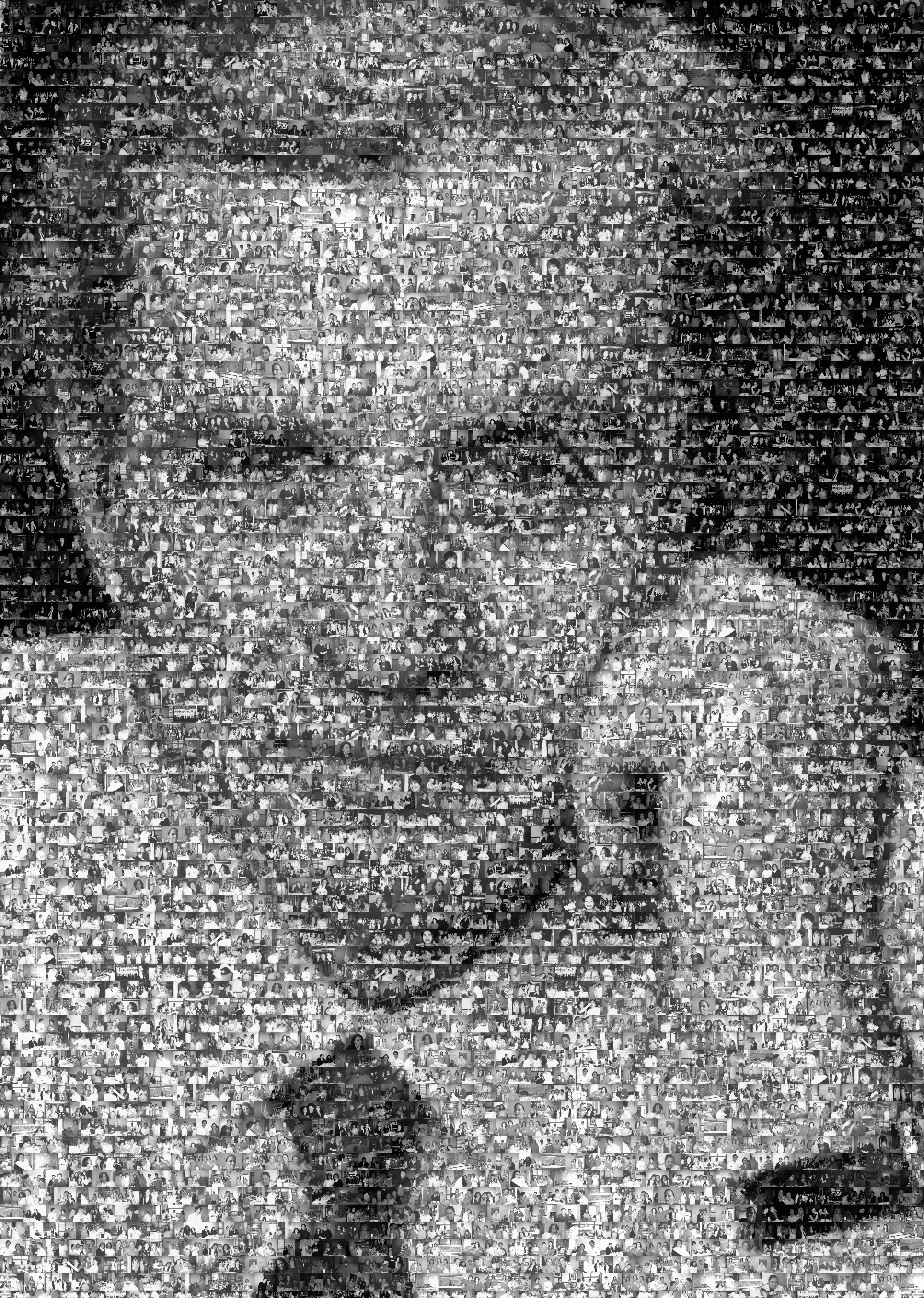 Mosaic of João Lobo Antunes with Santa Maria Neurosurgical Department Staff